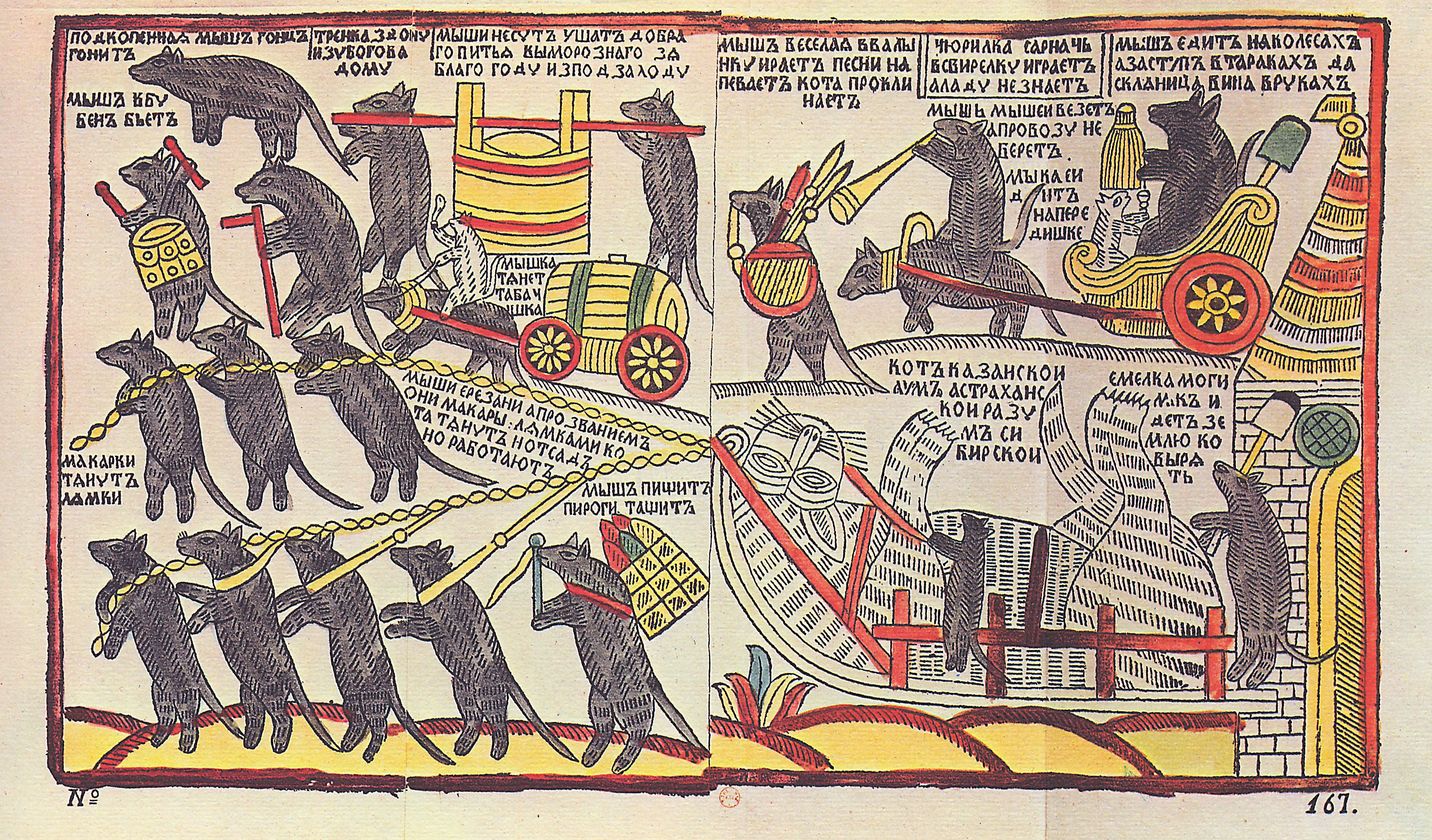 "The Mice are burying the Cat". An 18th-century Russian lubok print with a very popular plot, that of the mice burying the cat. It has been commonly thought this plot is a caricature of Peter the Great's burial, authored by the opponents of his innovations. (Indeed, the caption above the Cat says, "The Cat of Kazan, the Mind of Astrakhan, the Wisdom of Siberia" -- which itself is a parody of the title of Russian Czars). However, it has been claimed by modern researchers that this is simply a representation of carnivaluesque inversion, "turning the world upside down".